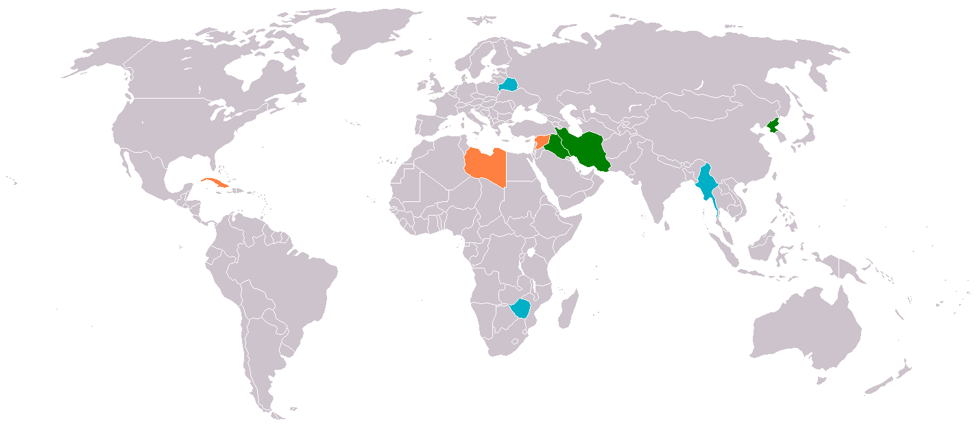 Map of the Axis of Evil according to Bush, Rice and Bolton